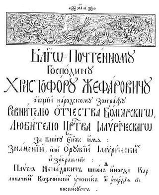 Dedication of "Stemmatographia" from Pavel Nenadovich to Hristofor Zhefarovich. Year 1741